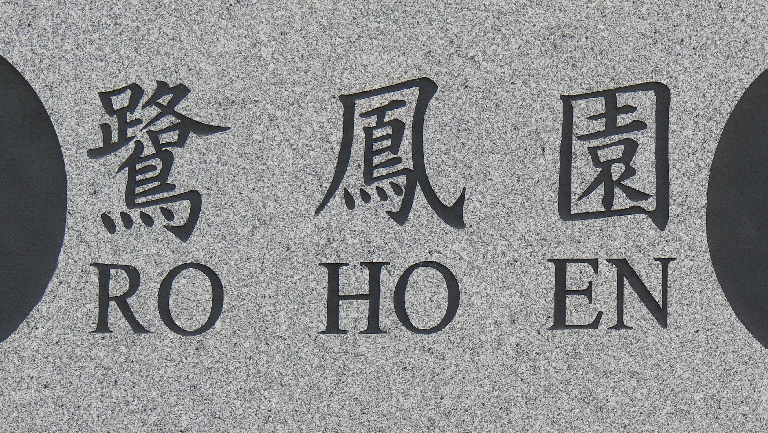 The image represents the logo of RO HO EN, The Friendship Japanese Garden of Phoenix, State of Arizona, USA.